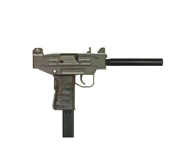 IMI Micro Uzi with suppressor